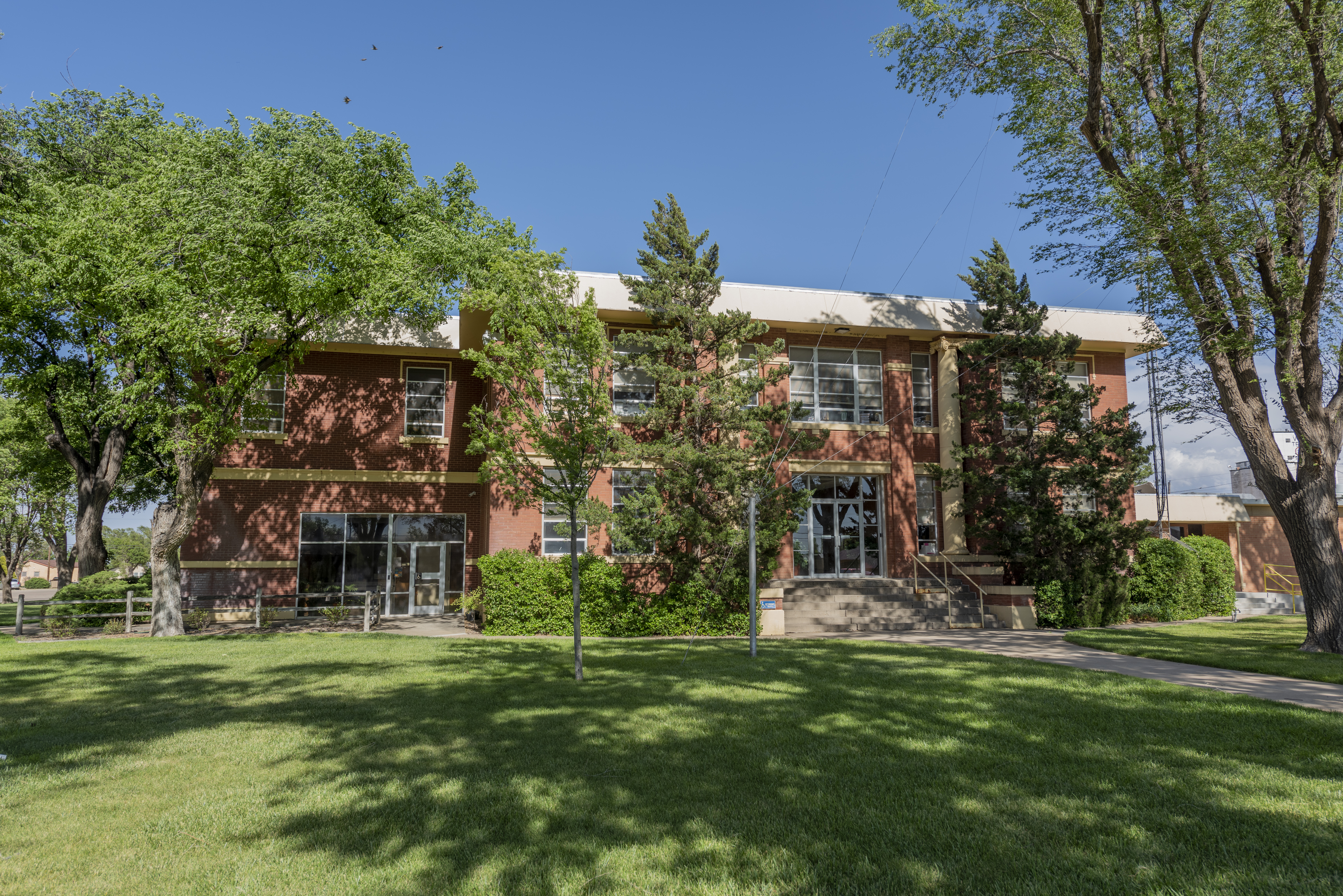 Image of the Oldham County, Texas courthouse located in Vega, Texas. Taken in May 2020.